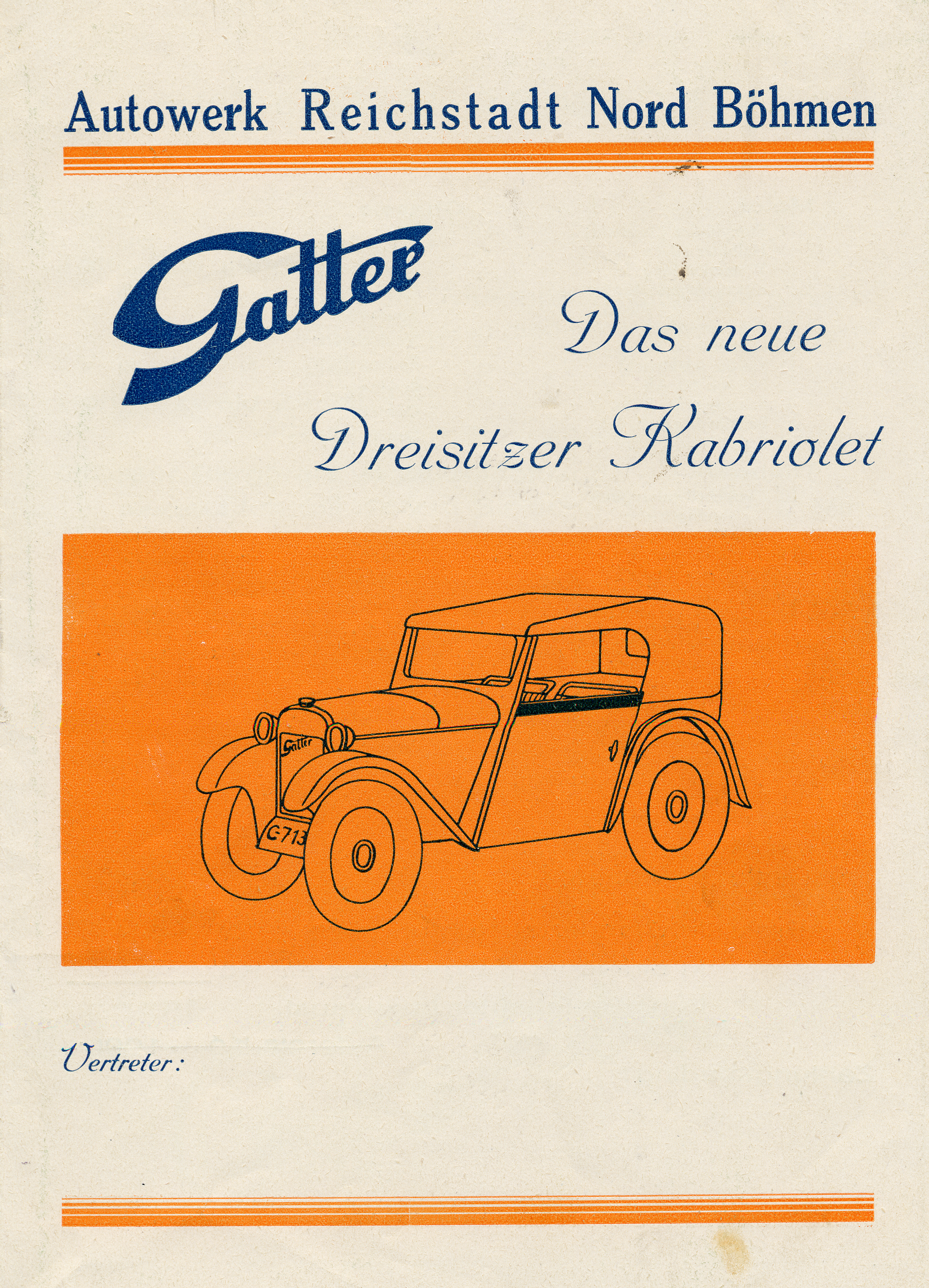 Advertisement of the Gatter Car Company in Reichstadt (Zakupy) of 1934, Czech Republic